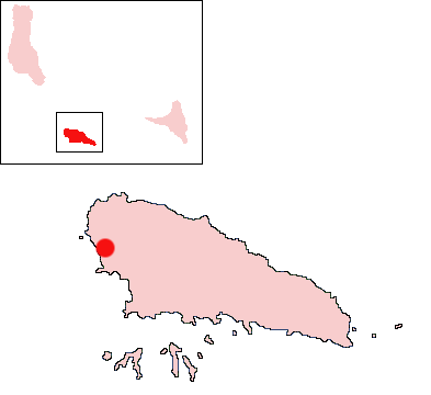 Miringoni, Mohéli, Comoros Location Map; created with the GIMP. Made by User:Acntx.